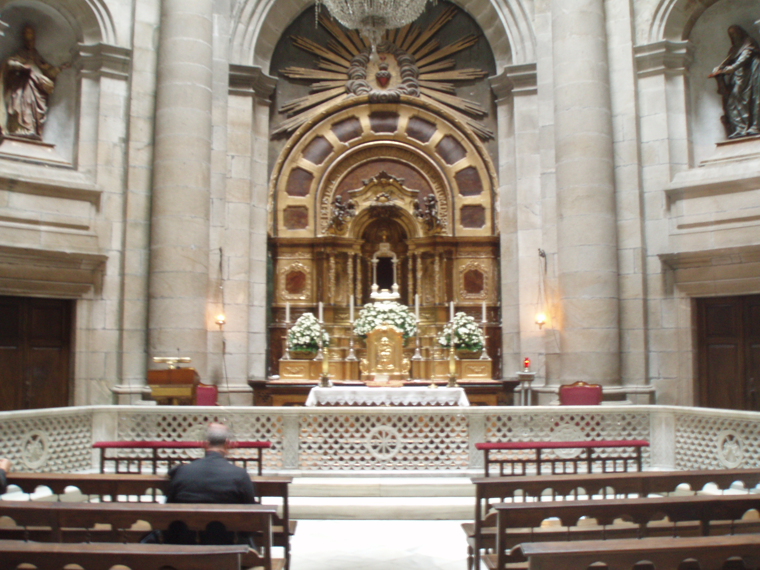 Cathedral of Santiago de Compostela, in Galicia. (Spain).